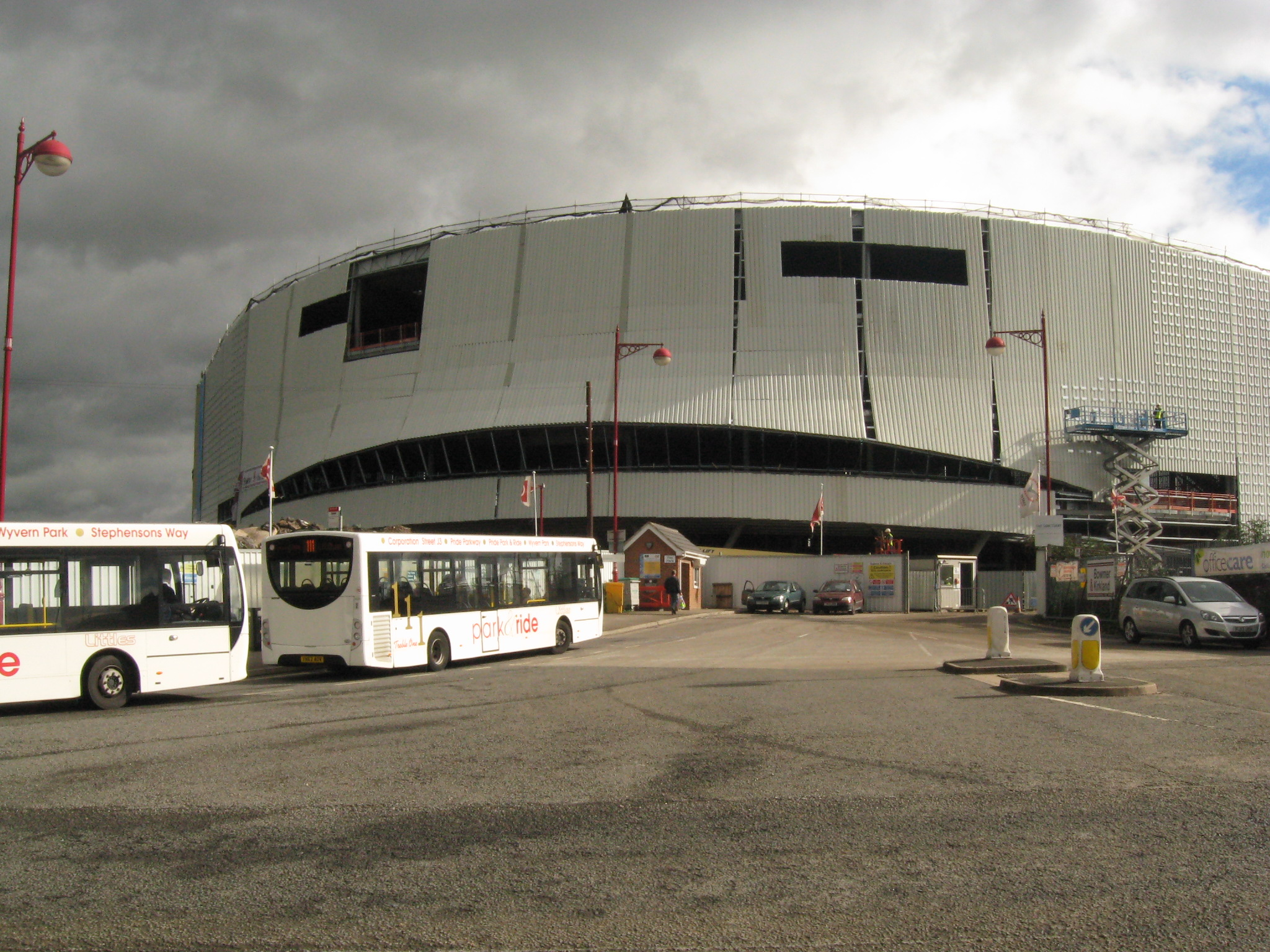 View of Pride Park Velodrome from former entrance to Park-And-Ride Car Park, Royal Way, Derby, as preparations are made to fix decorative fascia panels to the exterior.